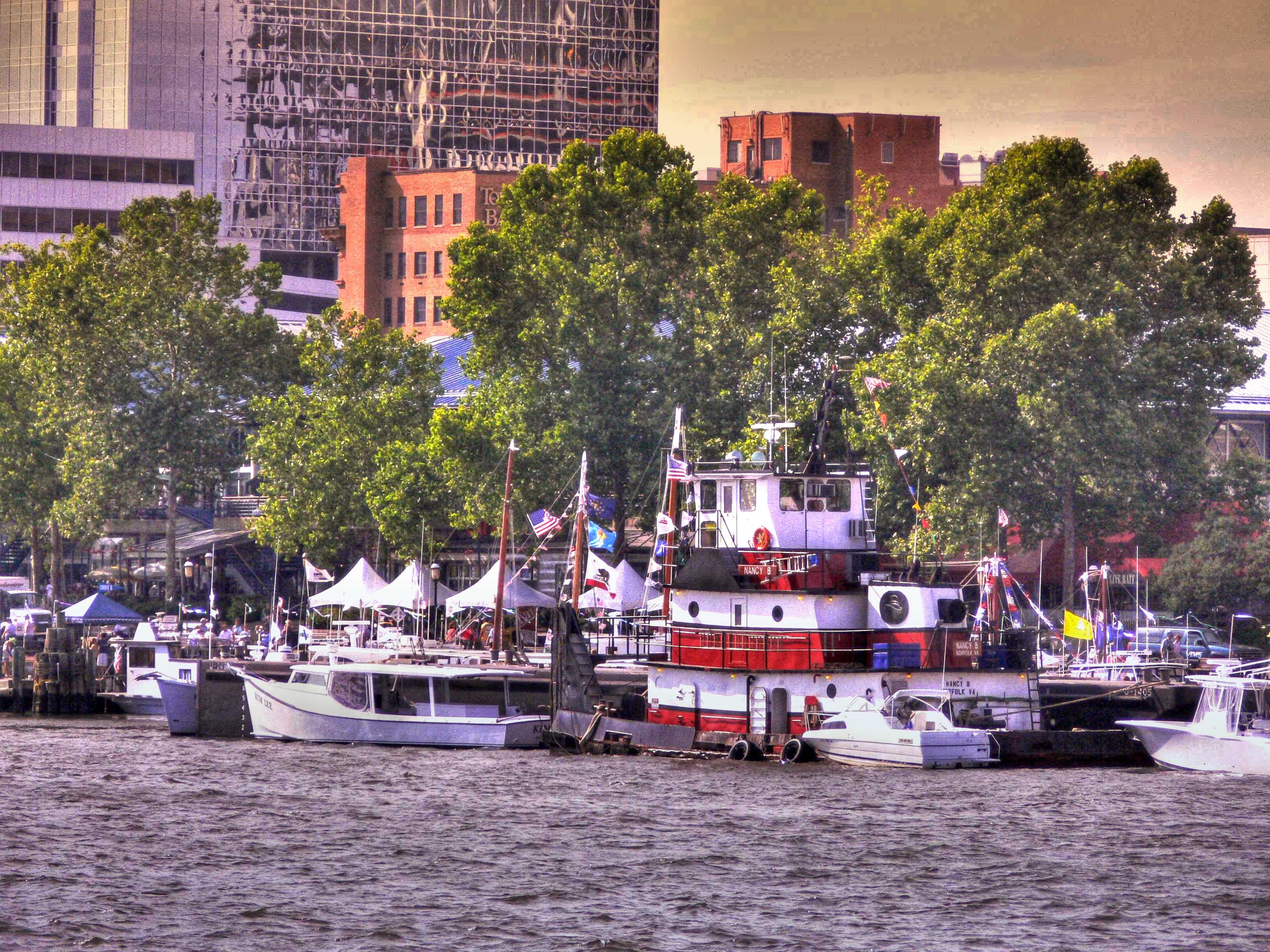 Waterside